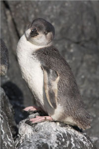 White-Flippered Penguin (Eudyptula albosignata) standing on rocks at Pohatu Reserve ( Banks Peninsula, South Island, New Zealand.